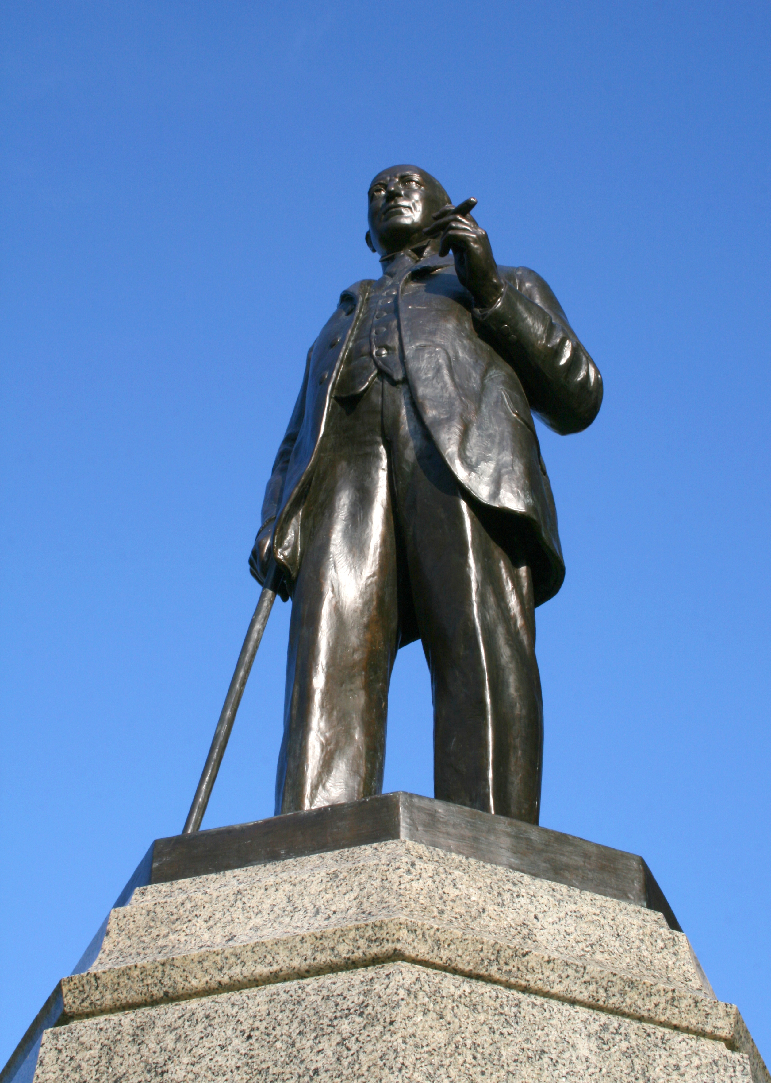 The statue of James Buchanan Duke at Duke University in Durham, North Carolina.